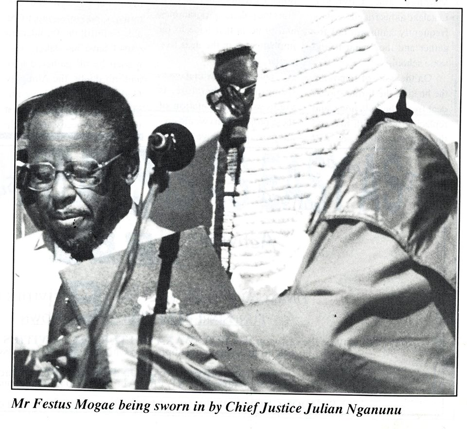 The former president of Botswana Festus Mogae being sworn by chief Julian nganunu in year 1998. 01. April